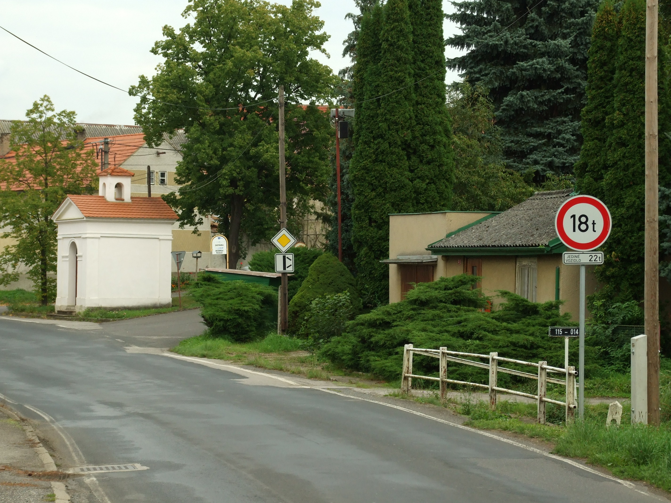 Around the common of Hodyně (part of the town of Skuhrov), Central Bohemian Region, CZ